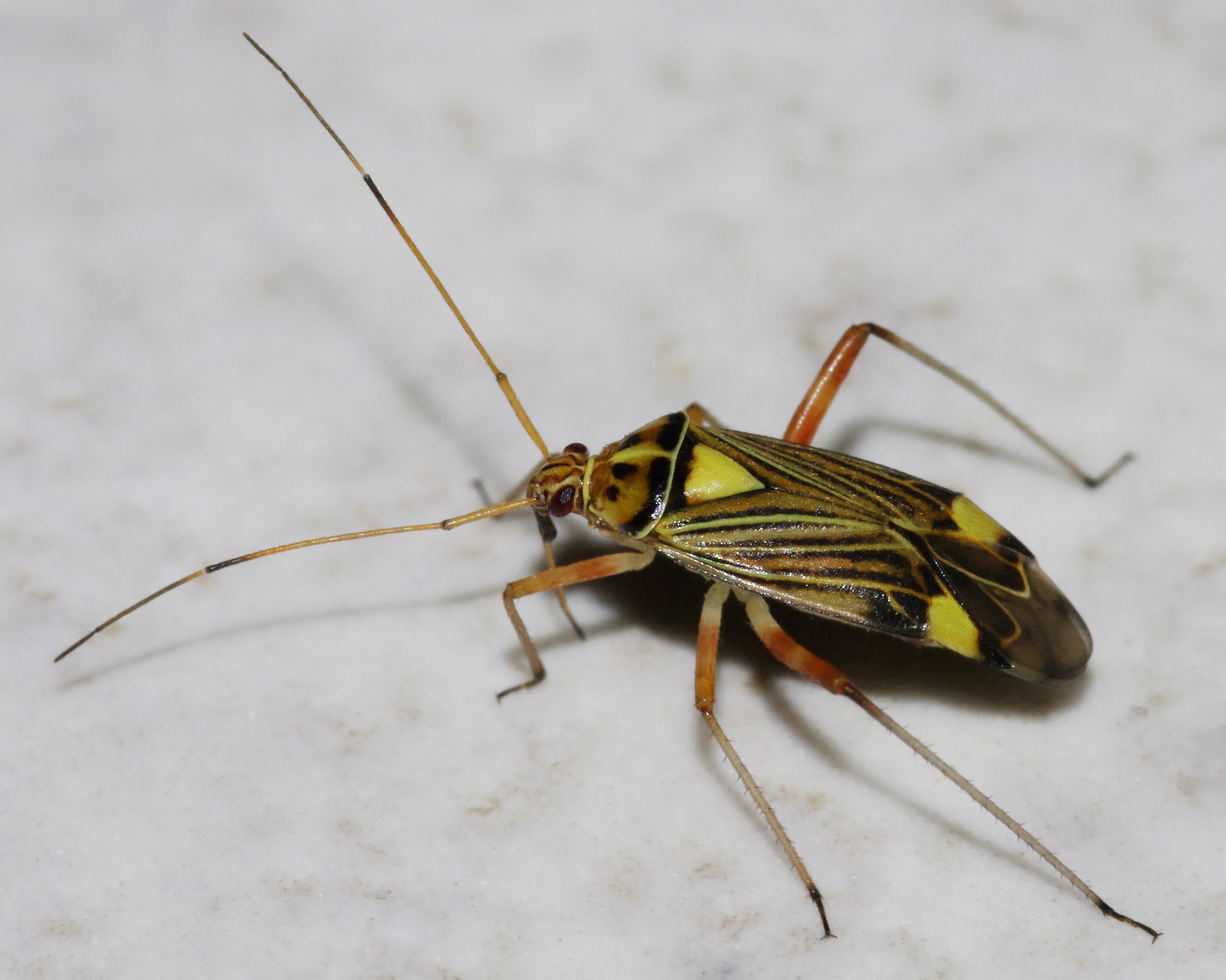 Close-up of the bug Rhabdomiris striatellus (syn.: Calocoris striatellus). The specimen is ~8 mm in length (body only).